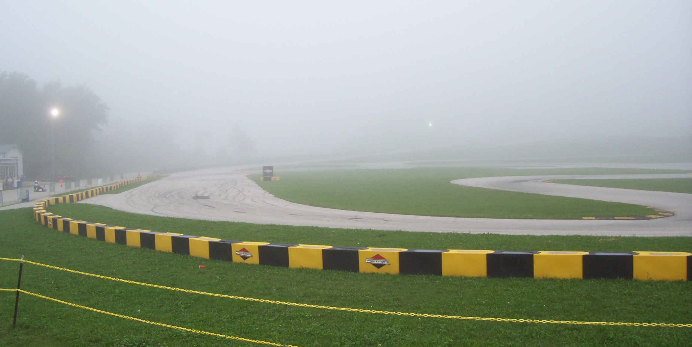 Left is the start/finish line at the Briggs & Stratton Motorplex at Road America near Elkhart Lake, Wisconsin, USA.